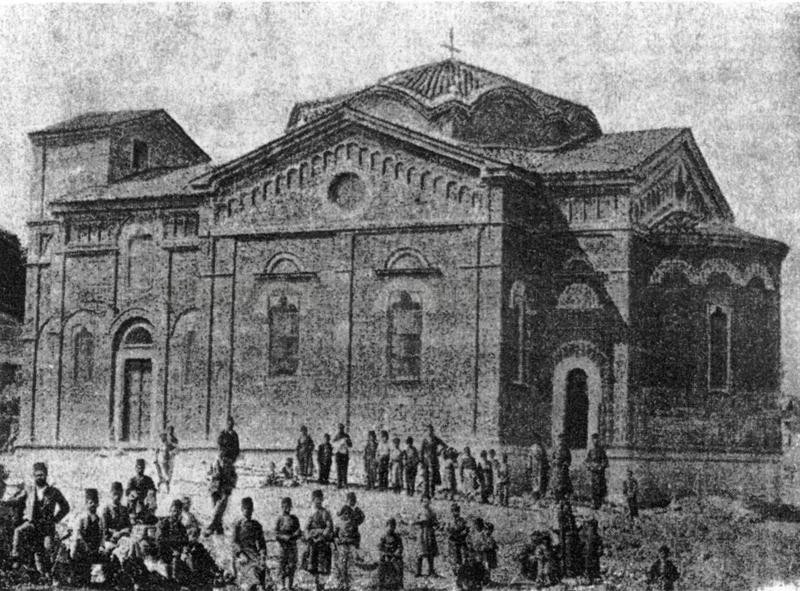 Bulgarian exarchist church of St.St. Cyril and Methodius in Resen